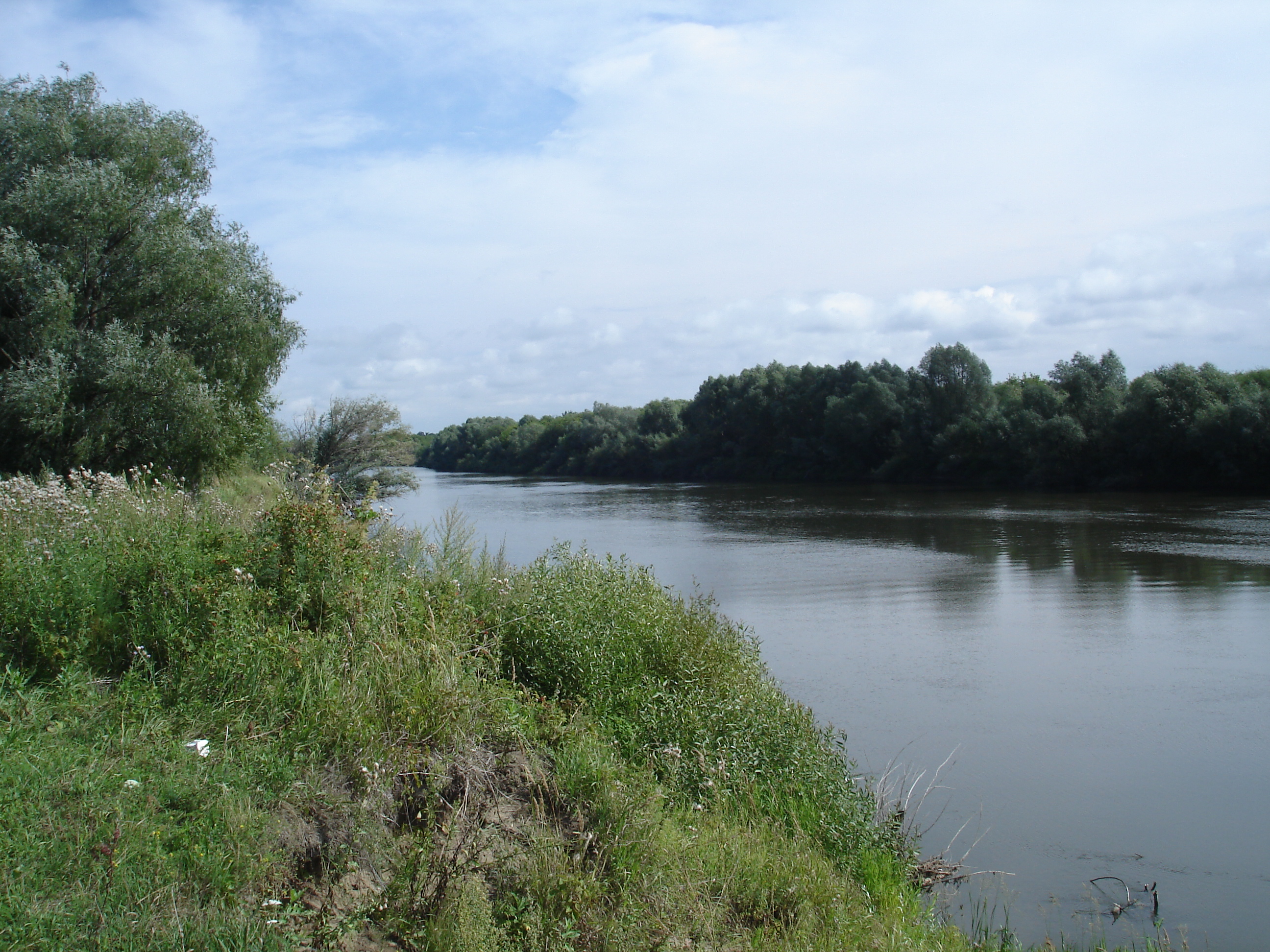 Moksha River on the border Sasovsky and Pitelinsky districts.